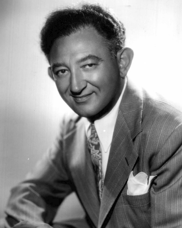 Photo of actor-comedian Bert Gordon. Gordon was known as "the Mad Russian" and was a regular on Eddie Cantor's radio shows.